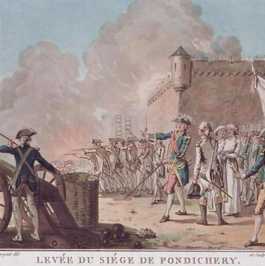 End the siege of Pondicherry in 1748. Dupleix Pondicherry defended, attacked by land and by sea by a strong English army.